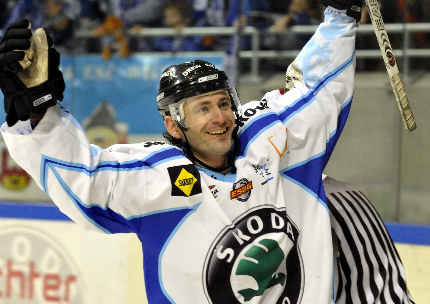 David Musial, Dresdner Eislöwen 2007/08, January 2008